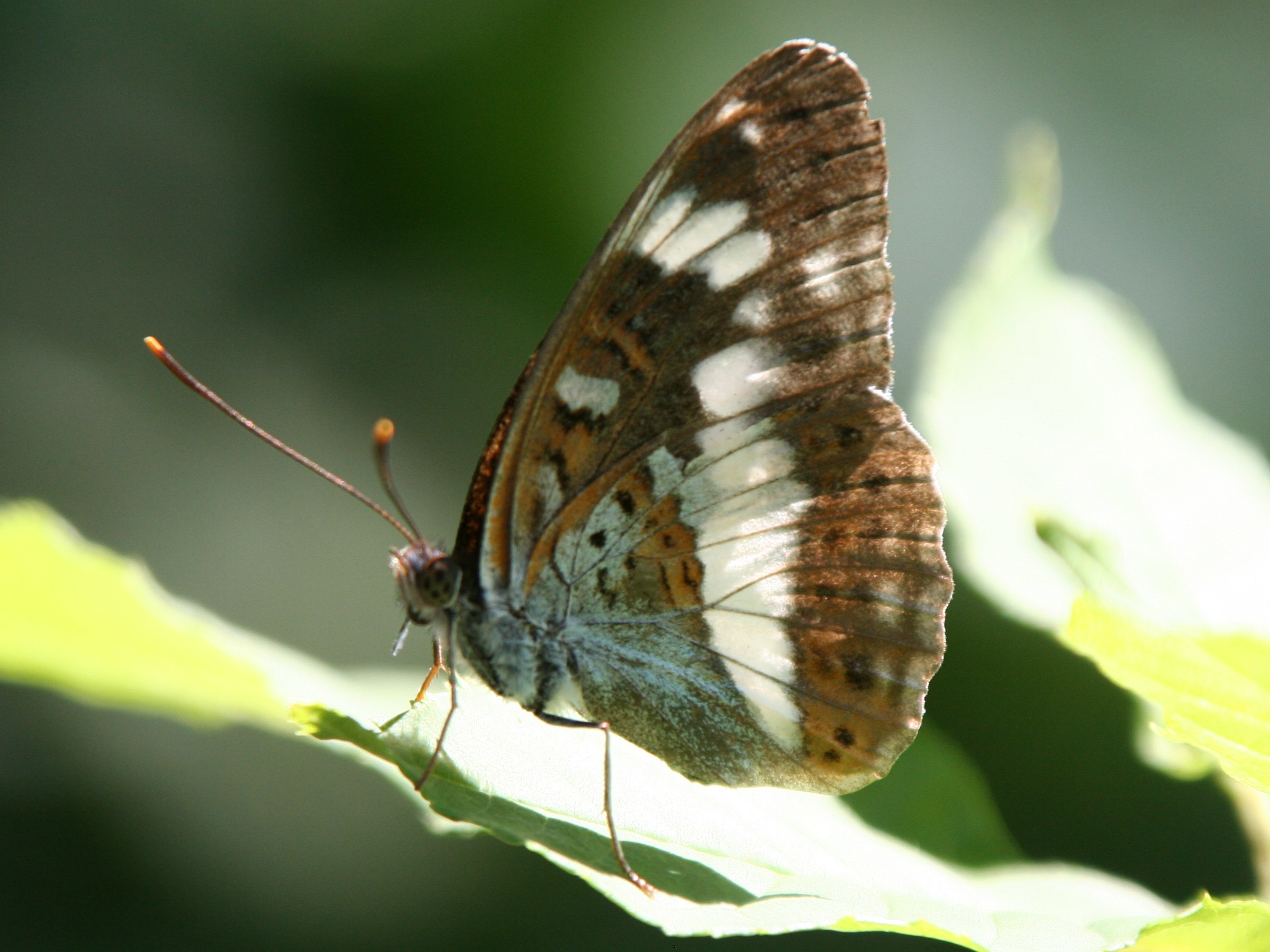 A White admiral butterfly (Limenitis camilla), photographed in Schwäbisch Hall-Wackershofen